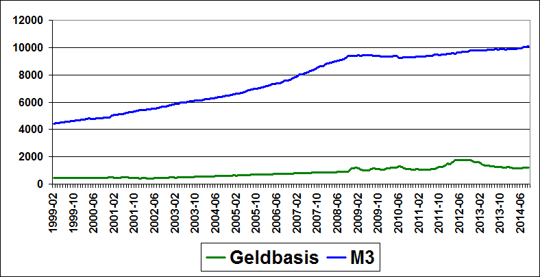 Money supply in billion Euro (Deutsche Bundesbank M3 (European Central Bank